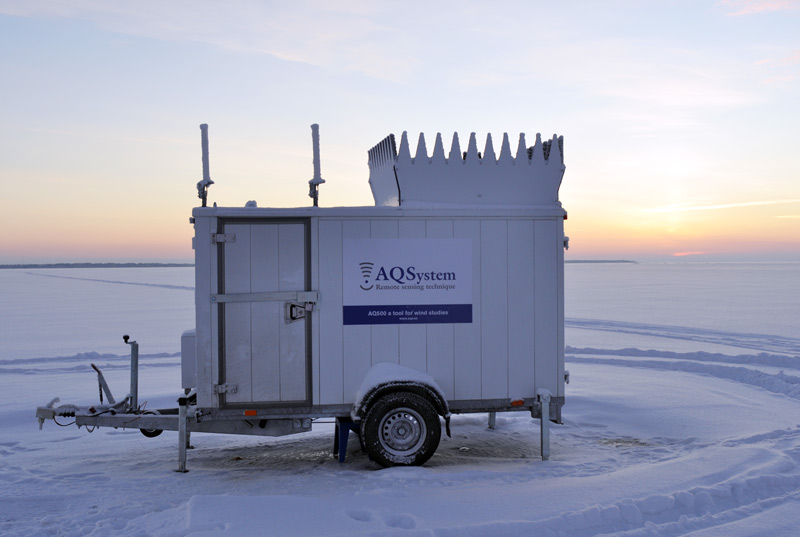 Sodar system from AQSystem